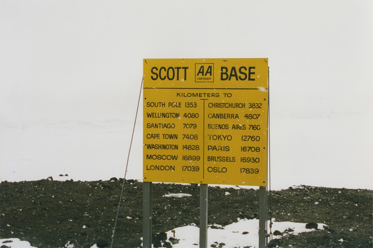 Scott Base in Antarctica. The image was taken by Brocken Inaglory